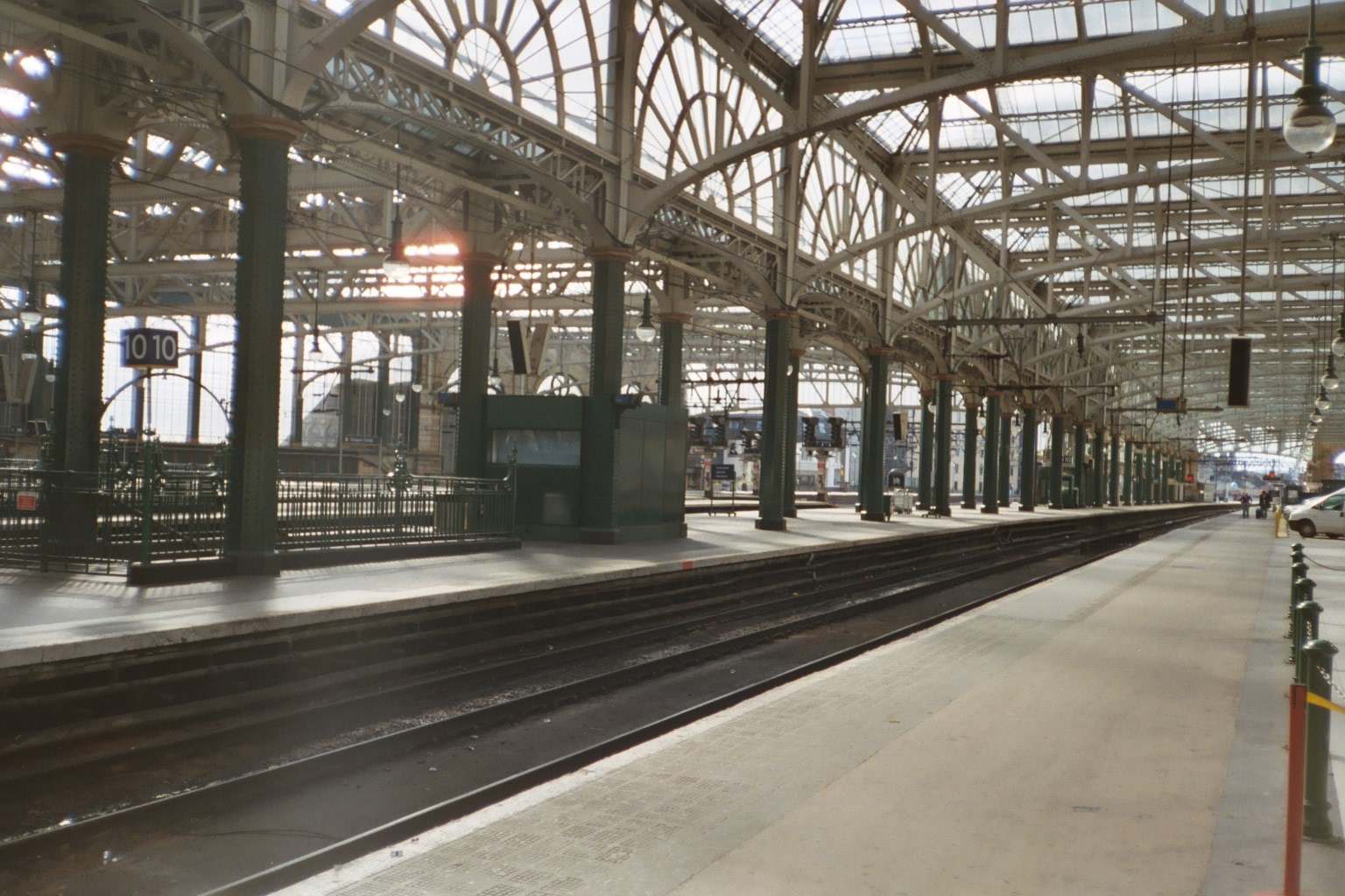 Shot of the trainshed at Glasgow Central Station in 2006